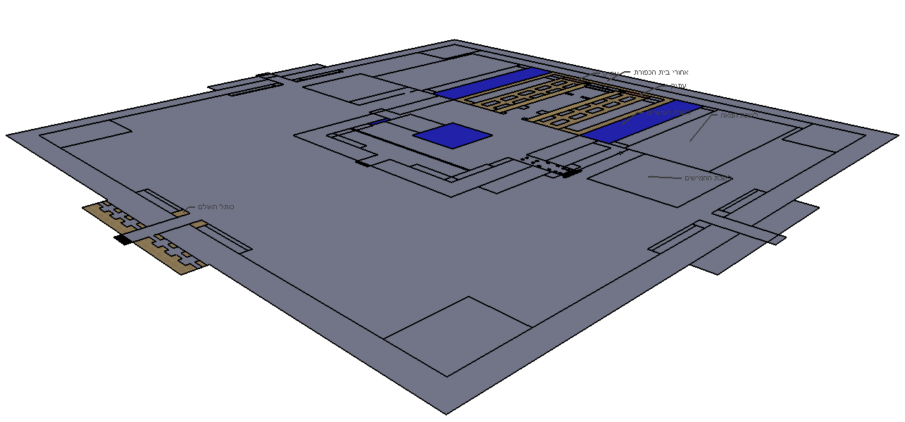 ISO image of Third Temple floor-plan exemplifying the apportioned areas of the Kohanim sons of Tzadok